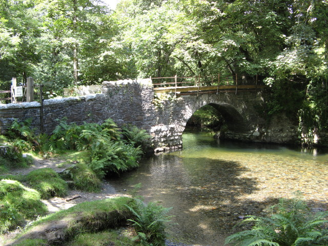 Grenofen Bridge over the River Walkham A view of Grenofen road Bridge over the River Walkham.